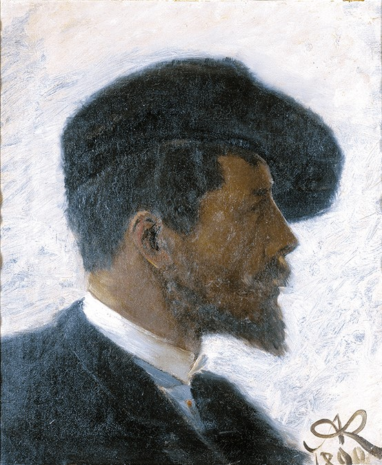 Self-portrait by Arnold Krog who served as artistic director of Royal Copenhagen from 1884.